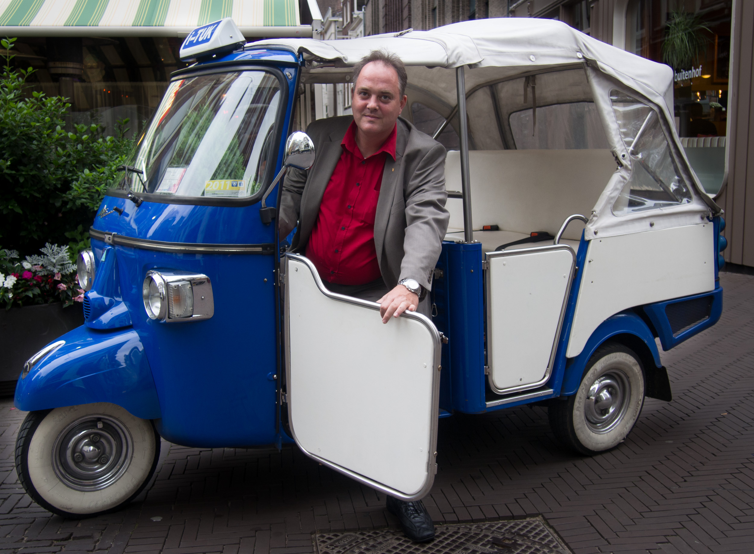 A Piaggio Ape Calessino tuk-tuk in The Hague, Netherlands, with the driver.